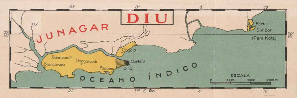 Map showing the territory of Diu, part of Portuguese India (Estado da India). The territory of Diu was made of Diu Island and the mainland village of Gogolá. Diu also controlled Forte Santo Antonio de Simbor (Forte Simbor, Forte Pani Kota) about 25 km east of Diu in the Bay of Simbor. That little-known fort remained in Portuguese hands from its construction in 1722 until India seized Goa and the other Portuguese settlements in 1961. Detail of a school map titled Mapa de Portugal insular e império colonial português (Map of Insular Portugal and the Portuguese Colonial Empire) published in Porto in 1934.